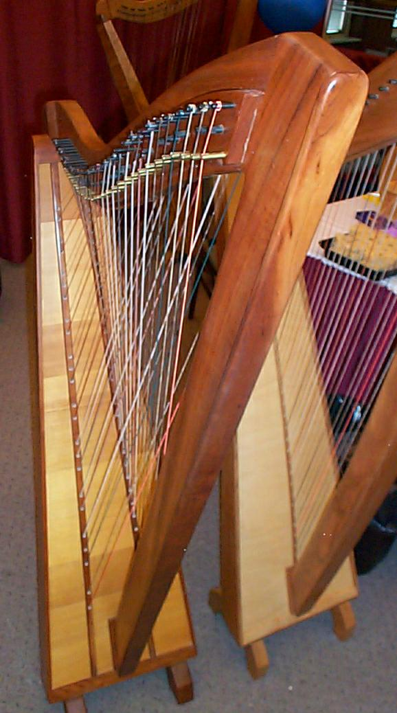 Cross harp. Picture taken by Erika Malinoski at HarpCon 2003